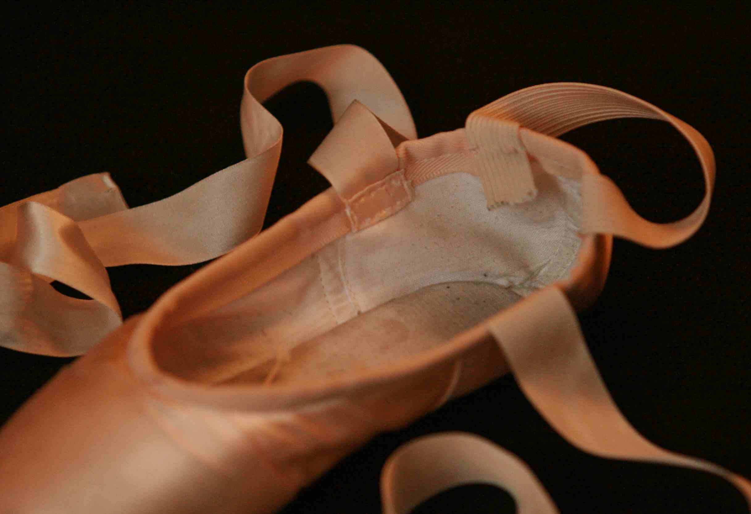 A pointe shoe, showing the elastic band and two fabric ribbons that are used to secure the shoe to a dancer's foot.